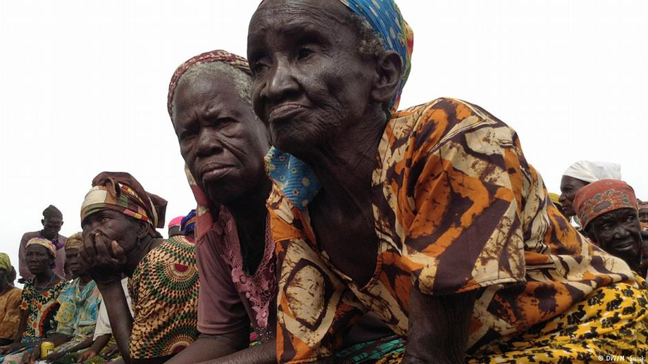 witches at Gambaga witch camp in Northern Ghana